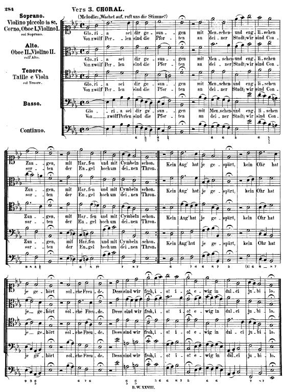 A scanned page from an 1881 edition of a Bach cantata. Both the edition and the composition are in the public domain.